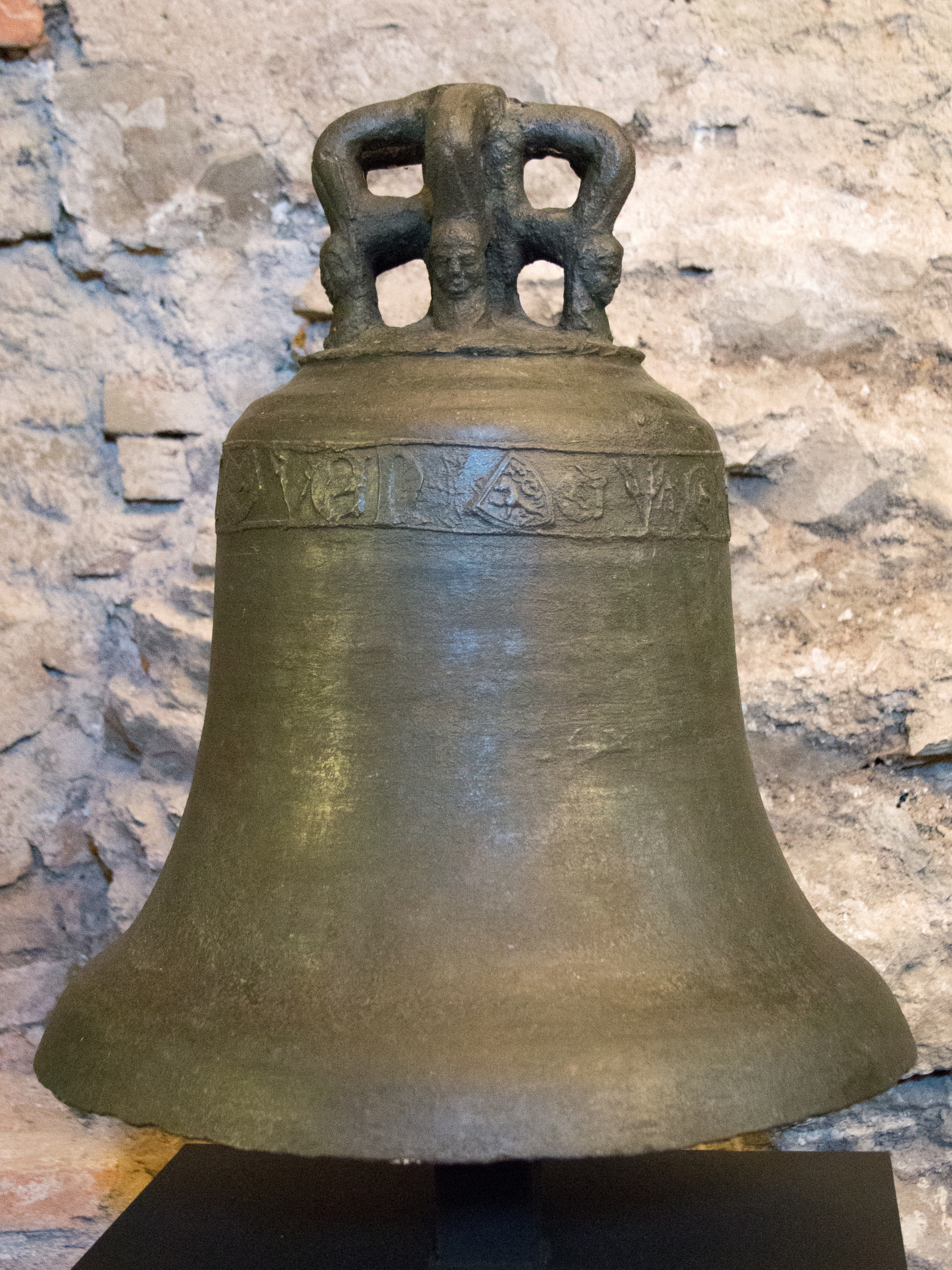 Bell, around 1300 AD. Bell.metal, diameter 63 cem, height 70 cm, weight 4 hundredweights (226 kg), tuning f1. Ostrava - Zábřeh, Church of the Annunciation of the Virgin Mary. Oldest preserved work in its kind in Czech Lands. Its origin is probably related to some of Moravian Benedictine cloisters. Exhibit in: Collections of Archbishopric Museum in Olomouc.